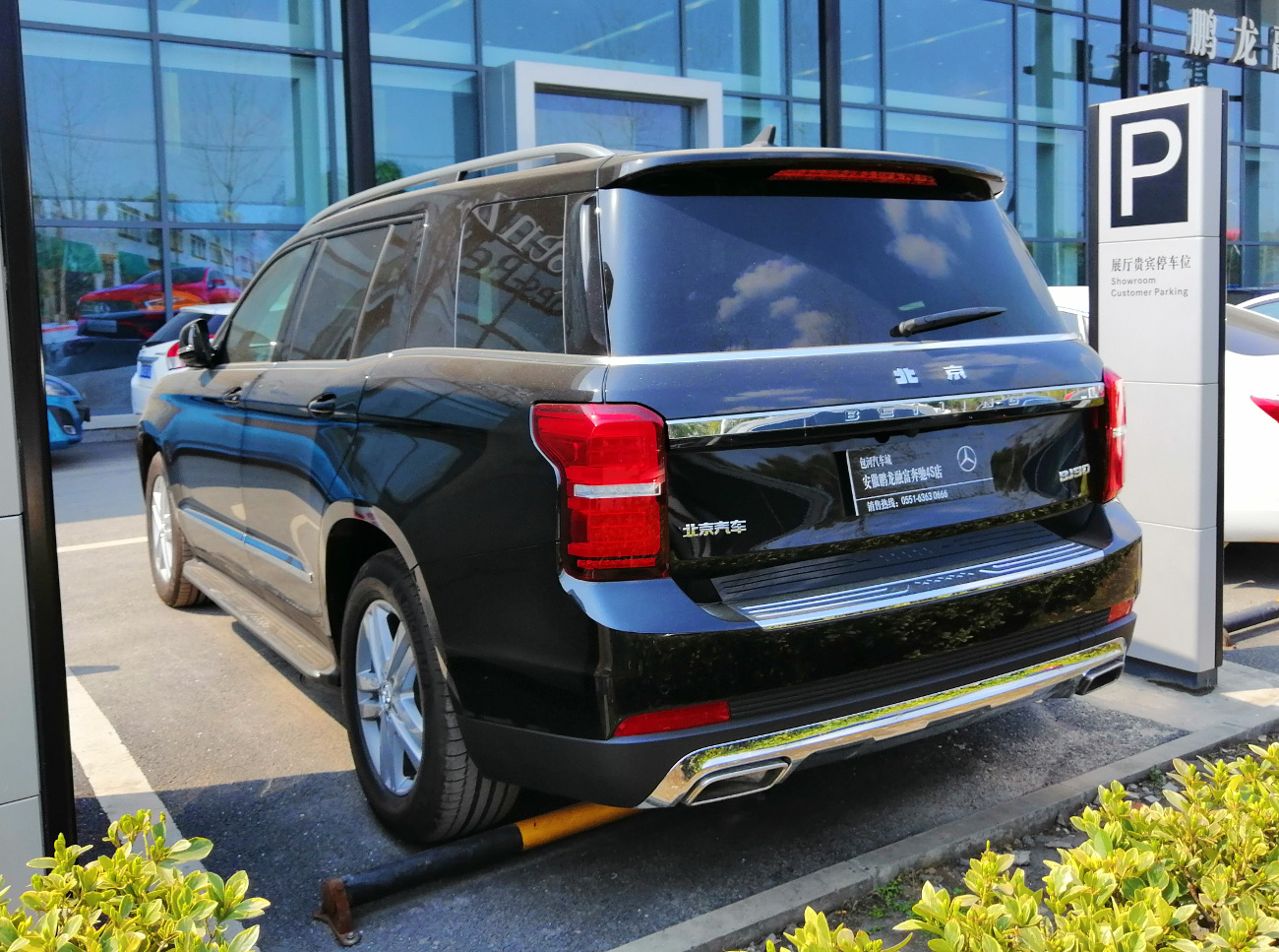 Beijing BJ90 photographed in Hefei, Anhui province, China.